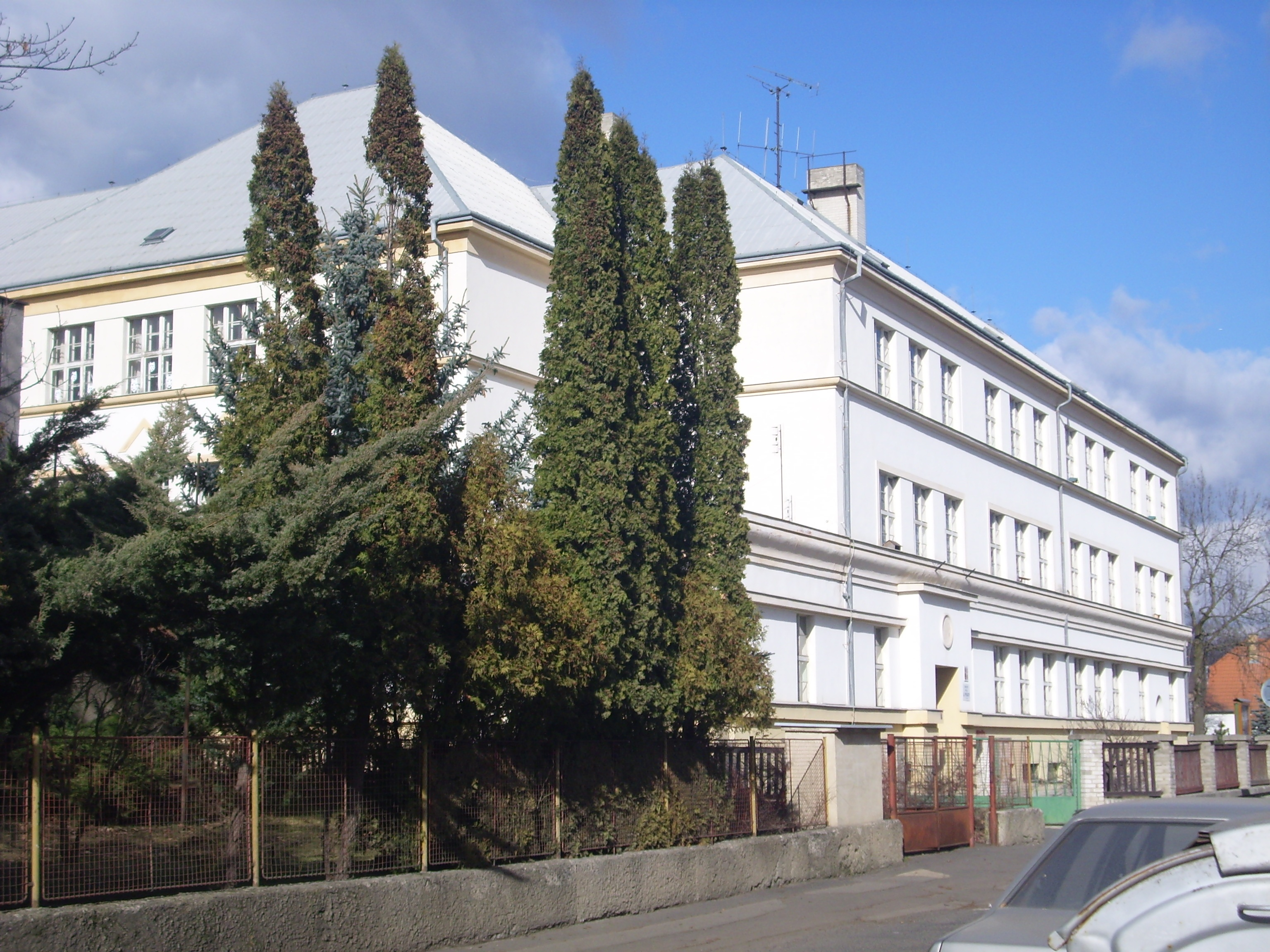 Basic school J. Pesaty in Duchcov in Czech republic